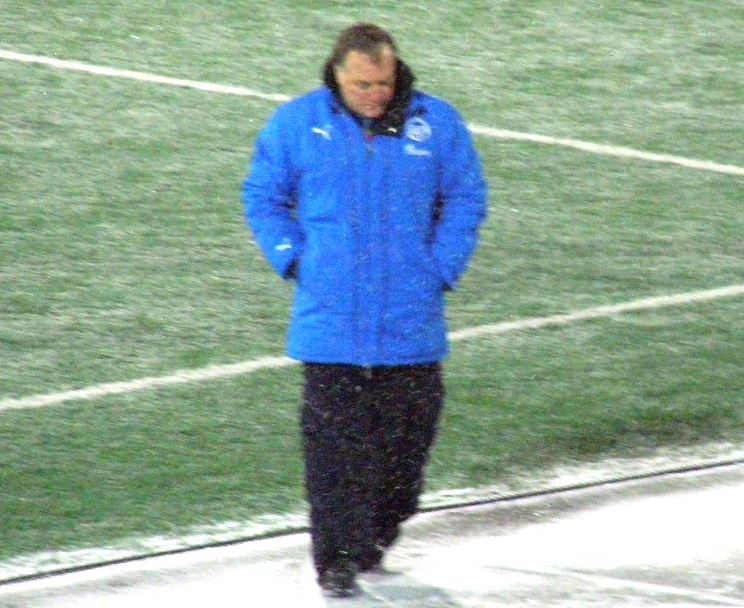 Dick Advocaat as a coach of FC Zenit St.Petersburg